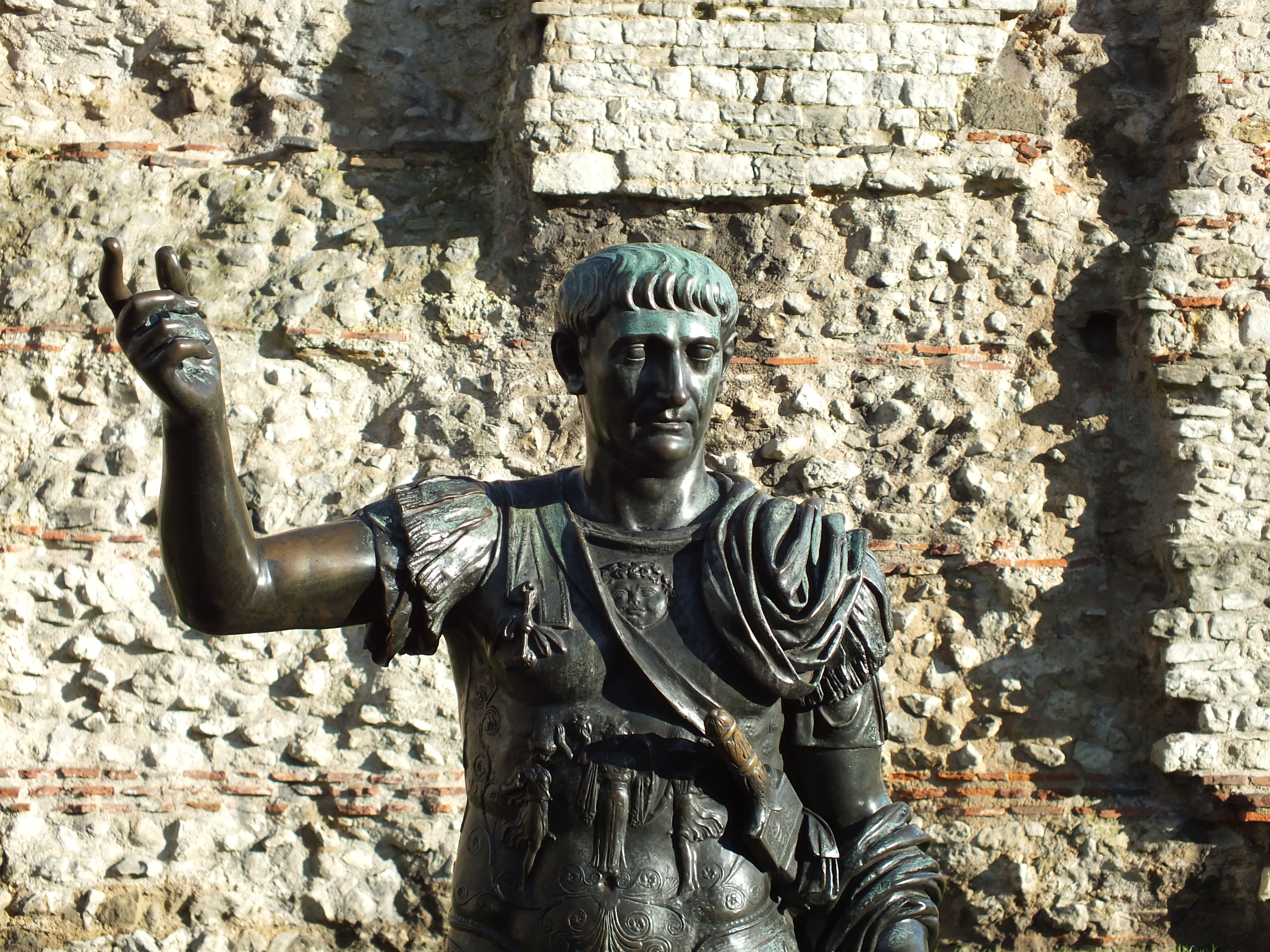 Statue of Trajan, Tower Hill, London, UK